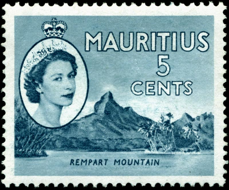 Mauritius 5c stamp of 1954, Rempart mountain